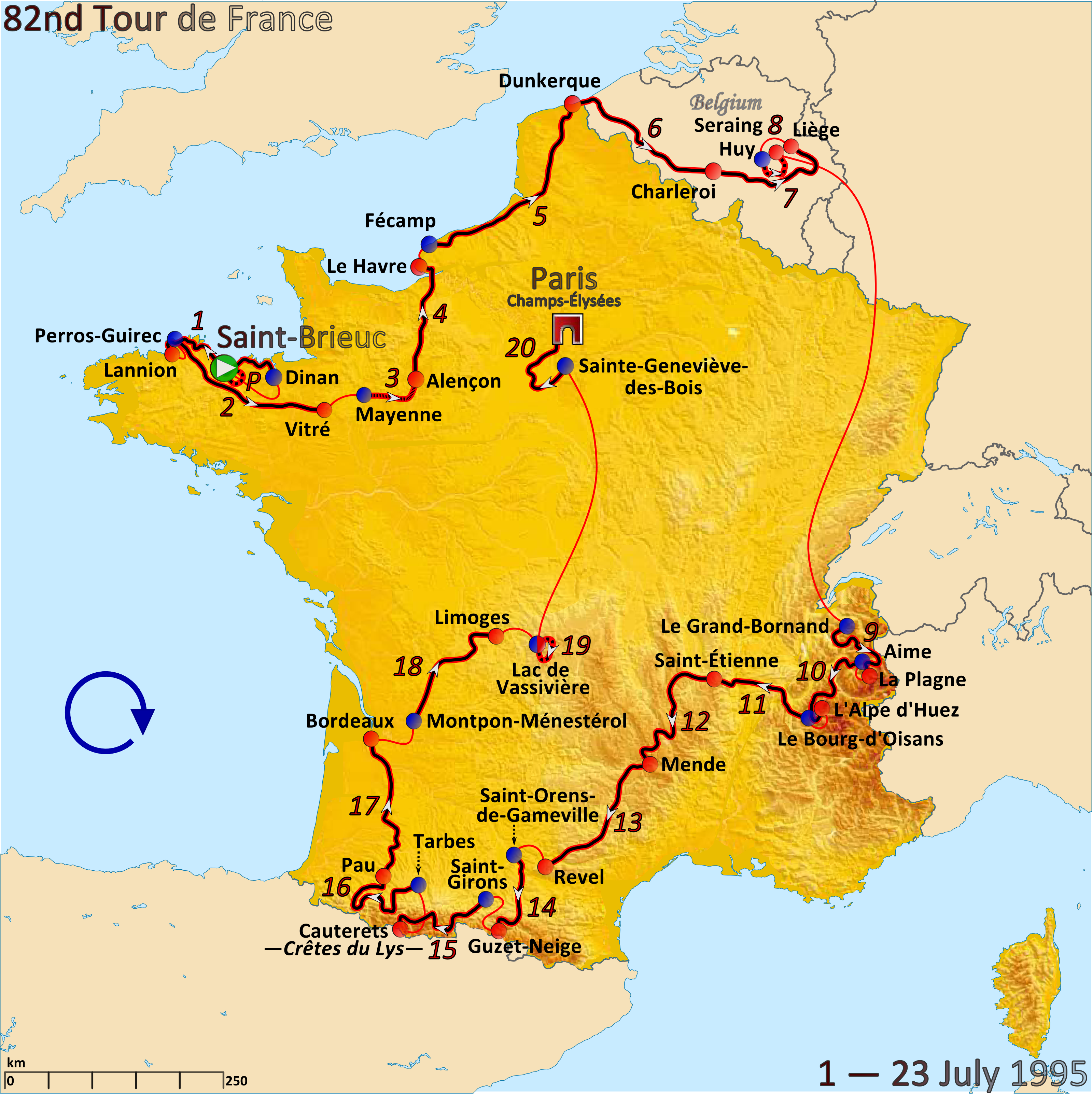 Map created in Inkscape of the 1995 Tour de France